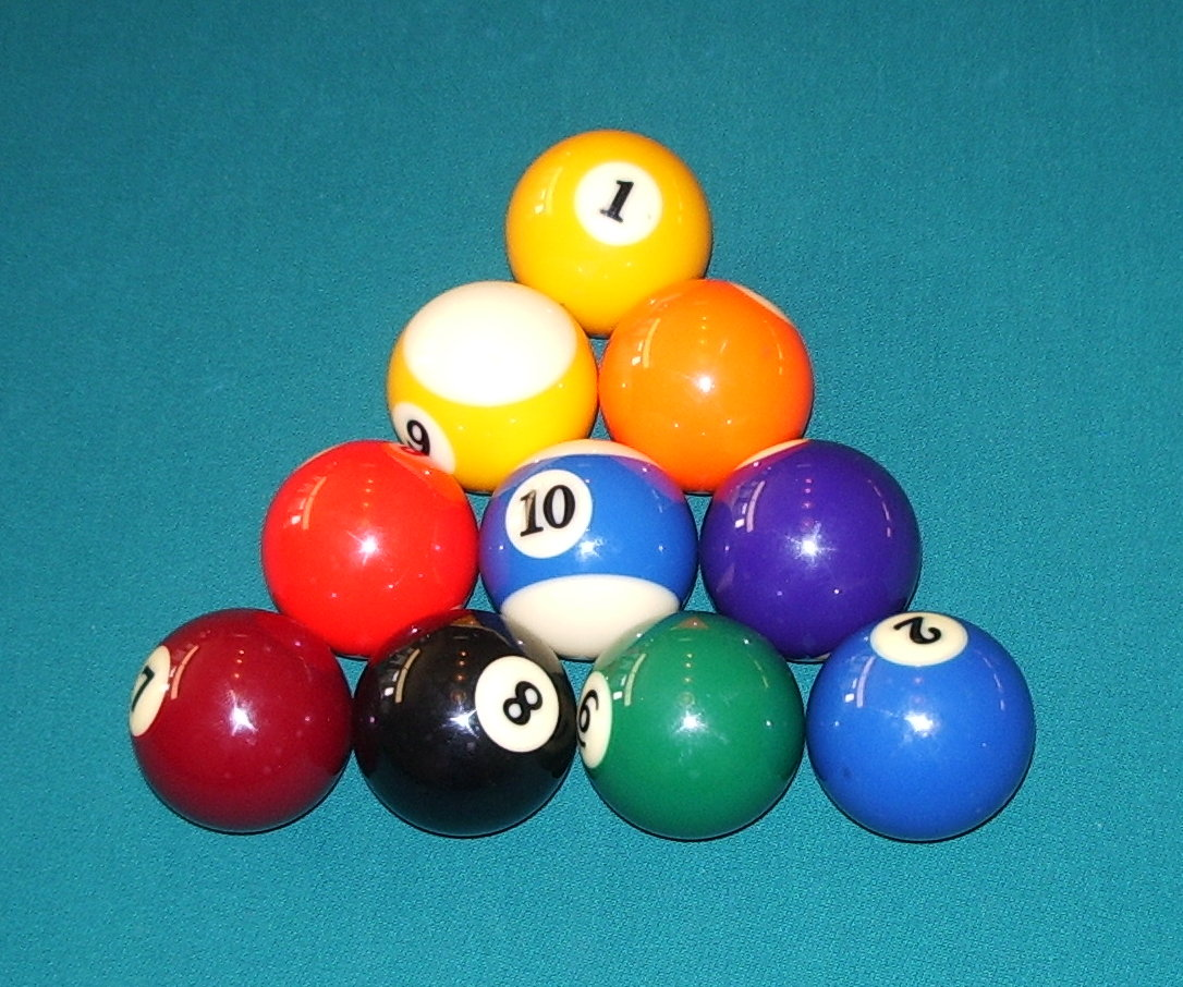 One of many valid racks in the pocket billiards (pool) game of ten-ball; the 1 ball is at the apex of the rack and is on the foot spot, the 10 is in the center, with all other balls placed randomly, and all balls touching.